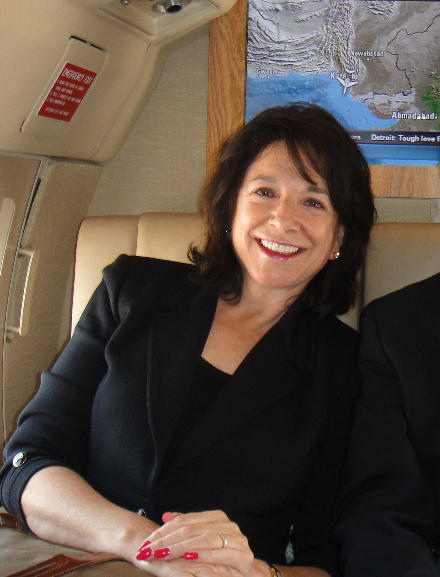 Mary Boies on a plane